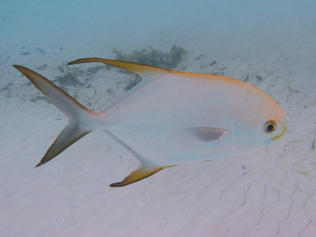 Praslin Syechelles, 01.03.2010, cm 20